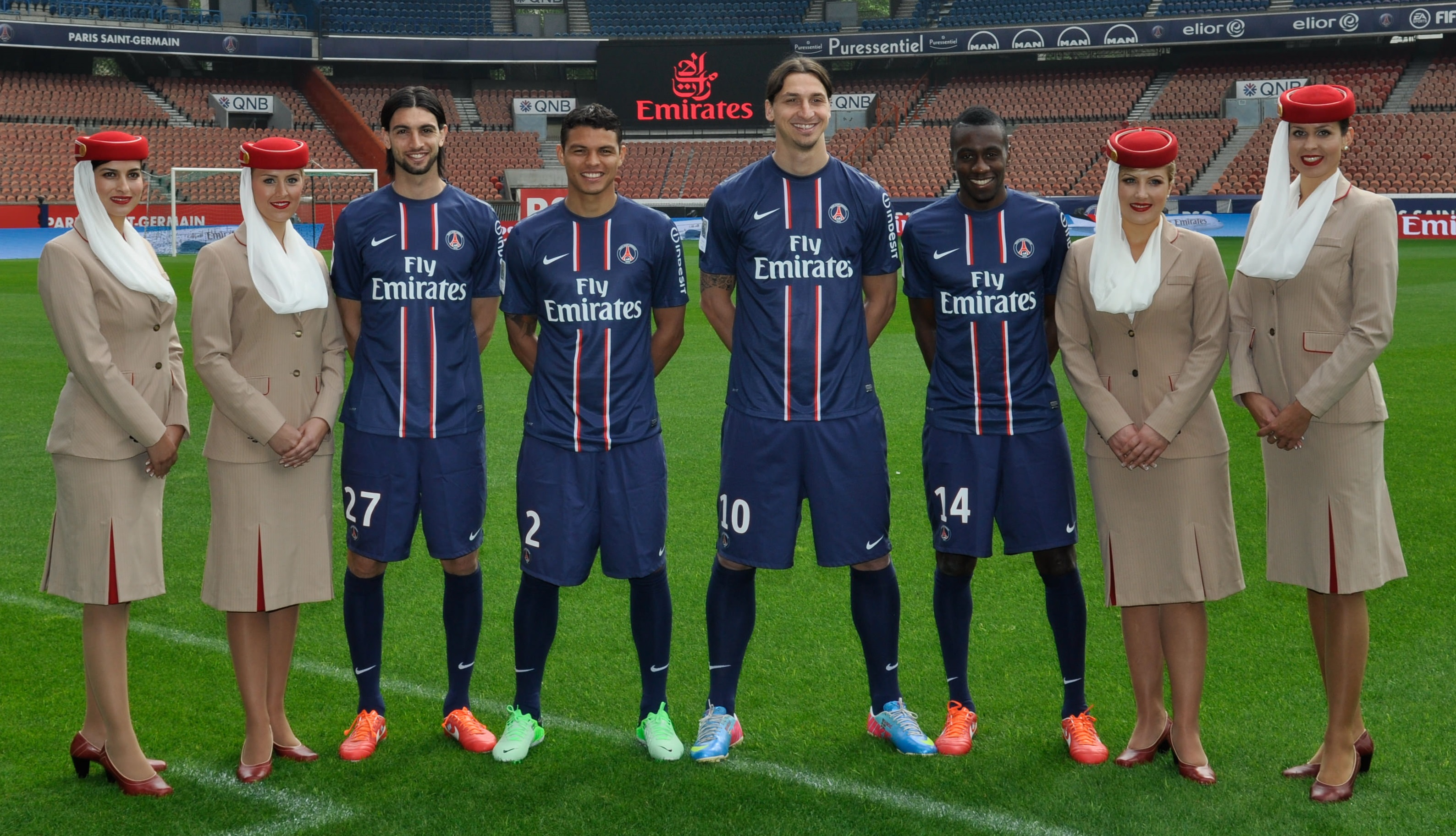 Javier Pastore, Thiago Silva, Zlatan Ibrahimovic and Blaise Matuidi